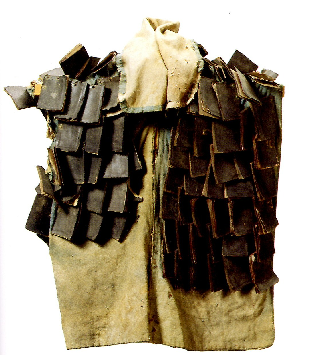 The armor of a Mongolian army